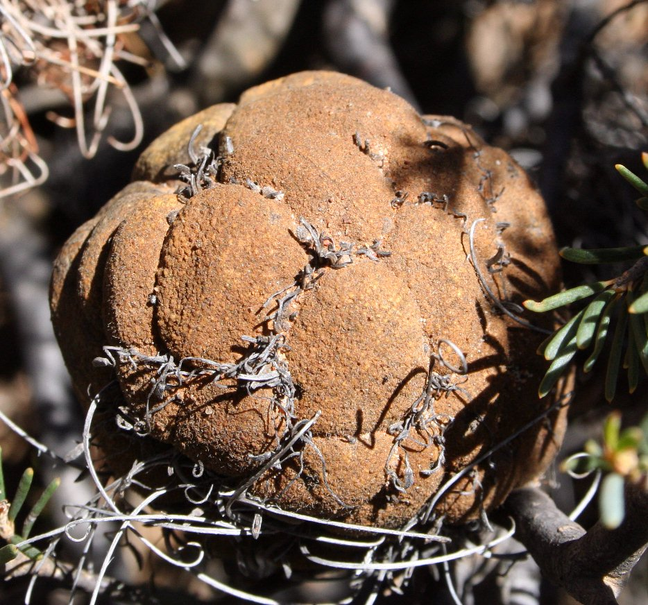 Banksia violacea, older cone